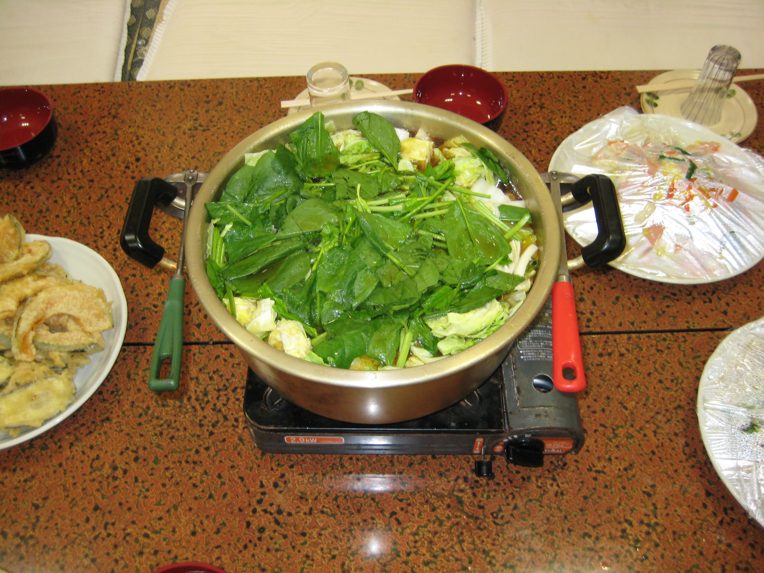 Chanko